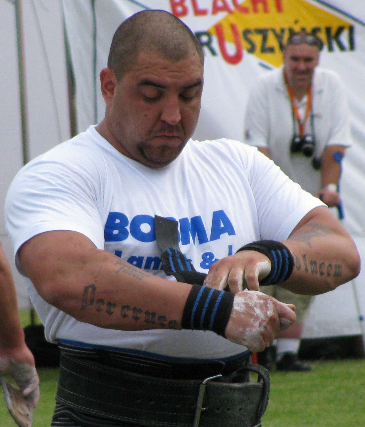 Raivis Vidzis - a strength athlete from Latvia